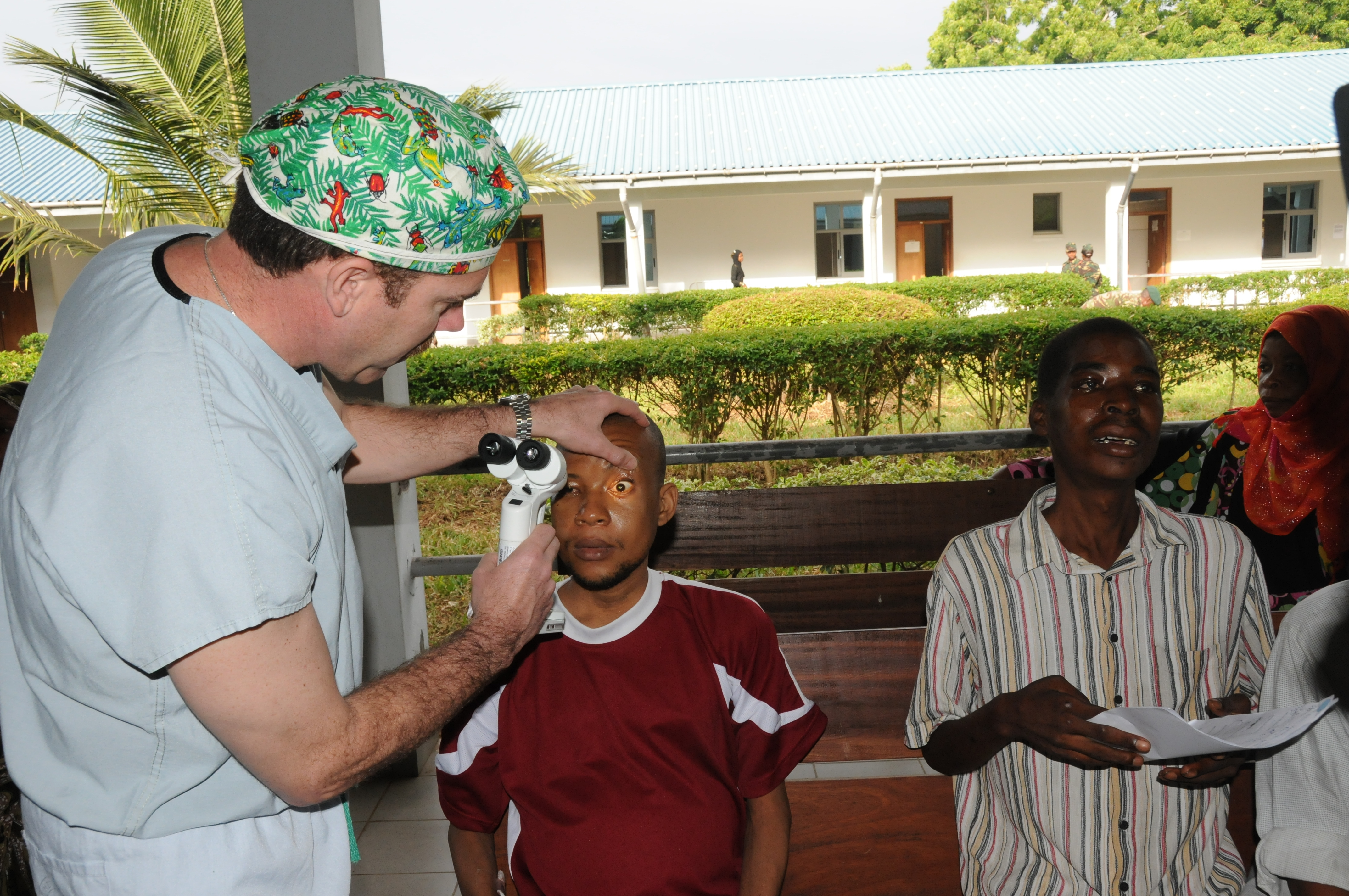 Col. Kevin Winkle, a U.S. Army ophthalmologist from Joint Base Elmendorf-Richardson, Anchorage, Ala., does a post operation check up on Yassuf Mahid Haji. According to U.S. ophthalmologists, Haji was a very special case: he is a severe diabetic with a blood sugar level that was off the charts. Ultimately, Haji’s diabetes accelerated the growth of his cataracts which blinded him by at the age of 30. Now, after his surgery, Haji can see up to nine feet away. Unit: U.S. Army Africa